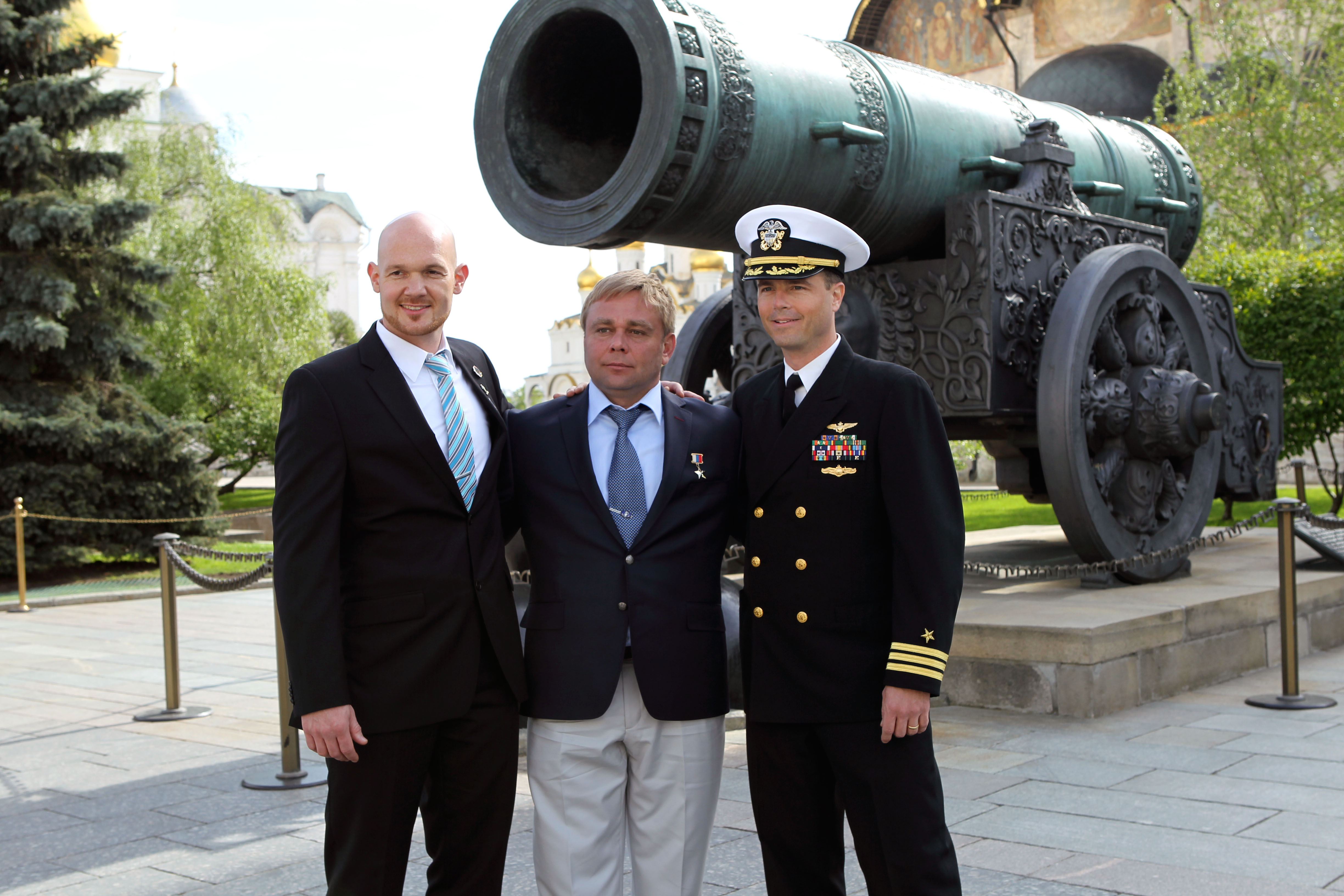 At the Kremlin in Moscow, Expedition 40/41 Flight Engineer Alexander Gerst of the European Space Agency (left), Soyuz Commander Maxim Suraev of the Russian Federal Space Agency (Roscosmos, center) and Flight Engineer Reid Wiseman of NASA pose for pictures May 8 in front of the Tsar Cannon after laying flowers at the Kremlin Wall where Russian space icons are interred. The trio is preparing for launch May 29, Kazakh time, in the Soyuz TMA-13M spacecraft from the Baikonur Cosmodrome in Kazakhstan for a 5 ½ month mission on the International Space Station.